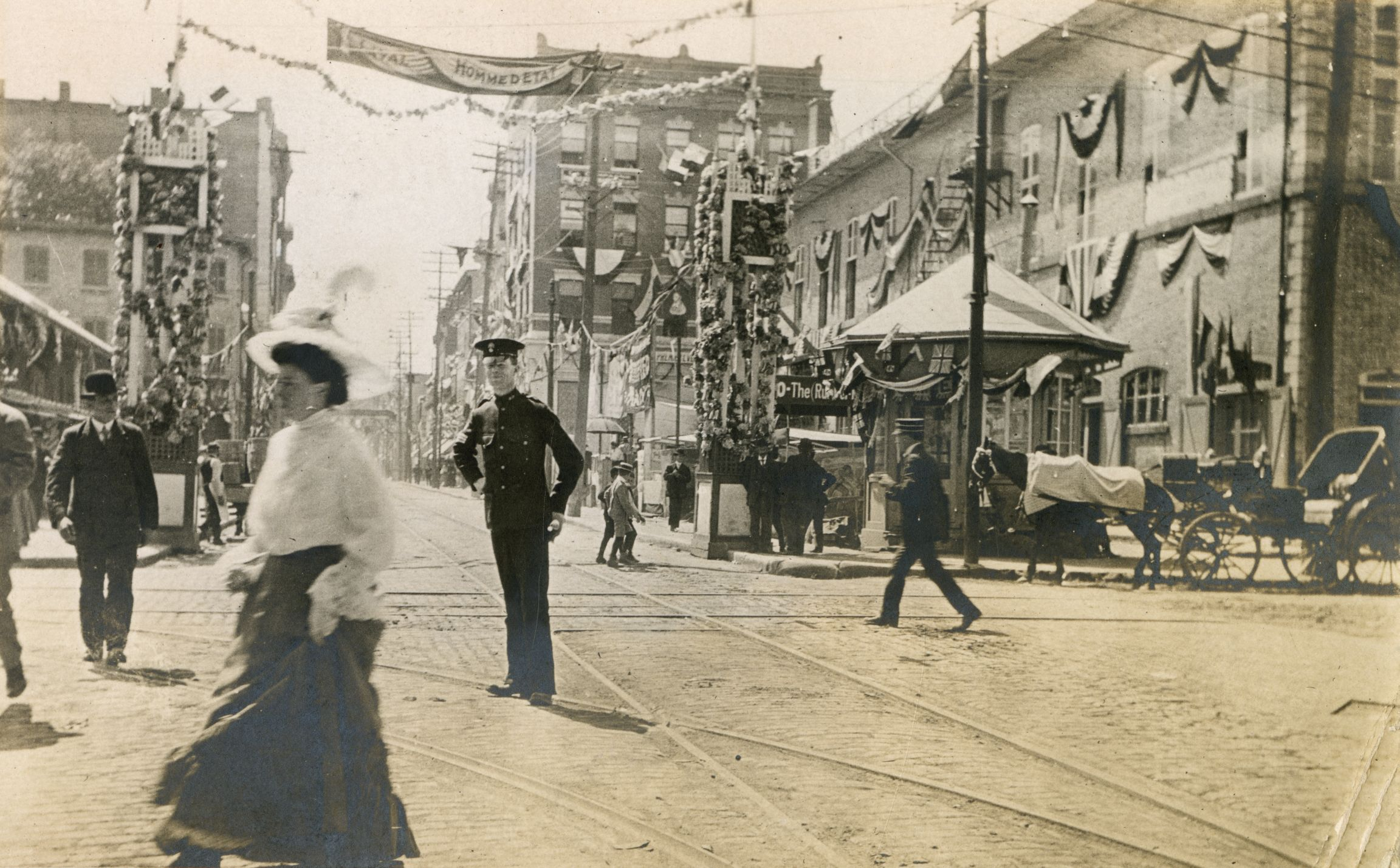 Street decorated for the Quebec Tercentenary, Quebec City, Canada.